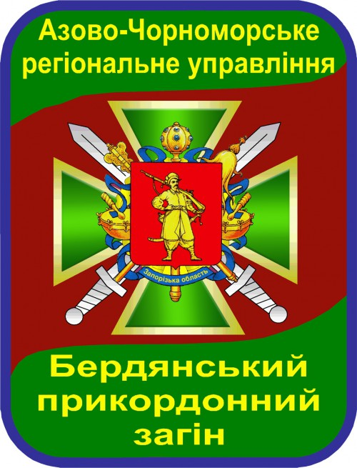 State Border Guard Service Patches of Ukraine